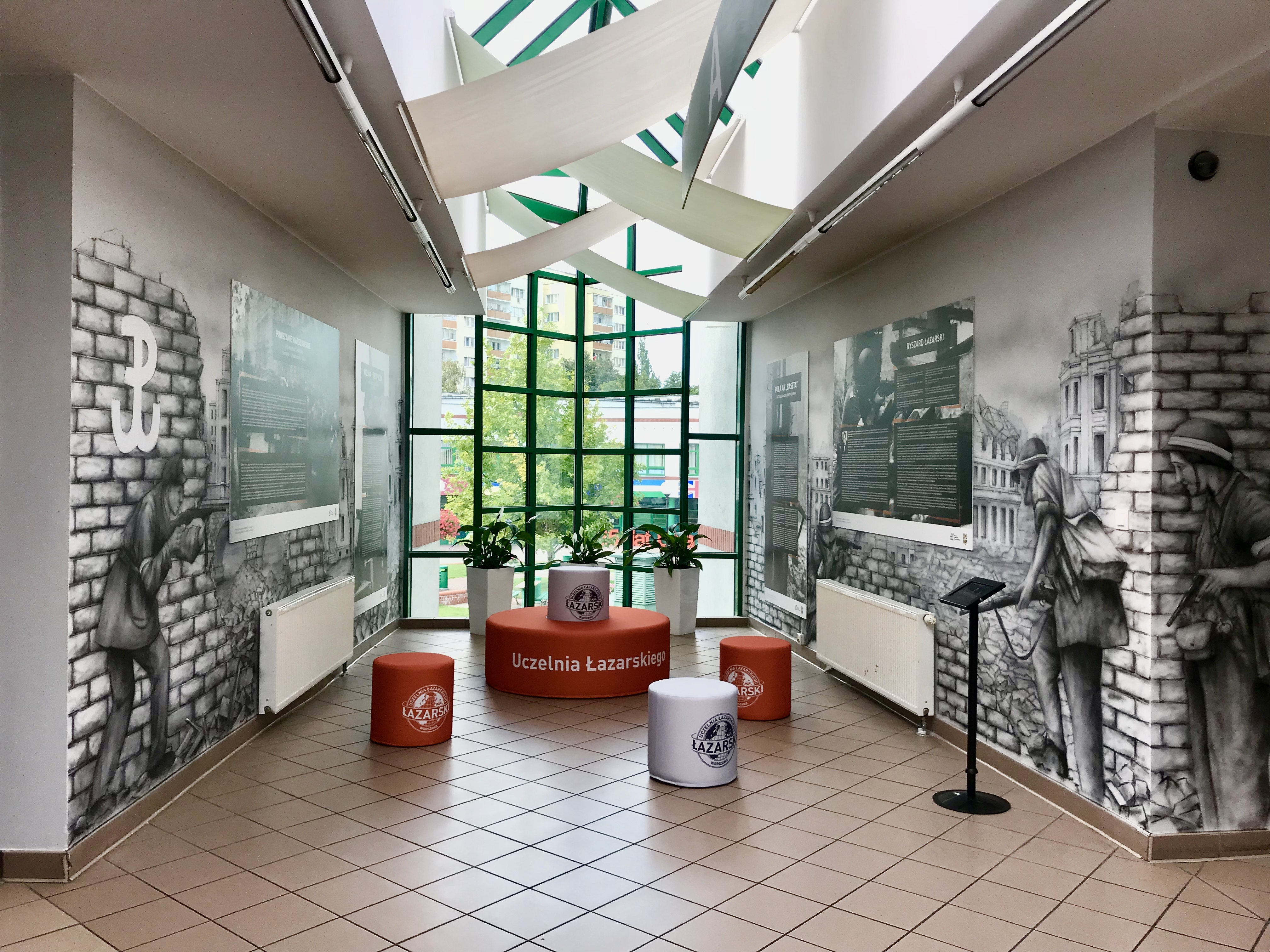 Izba Pamięci UŁa